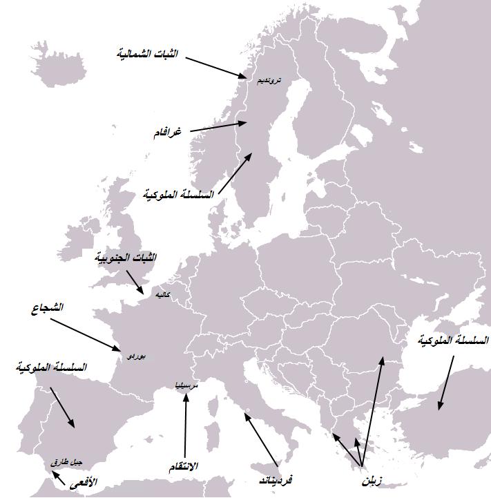 A map of the subordinate plans of Operation Bodyguard, the 1944 deception in support of the Allied invasion of Normandy (D-Day).